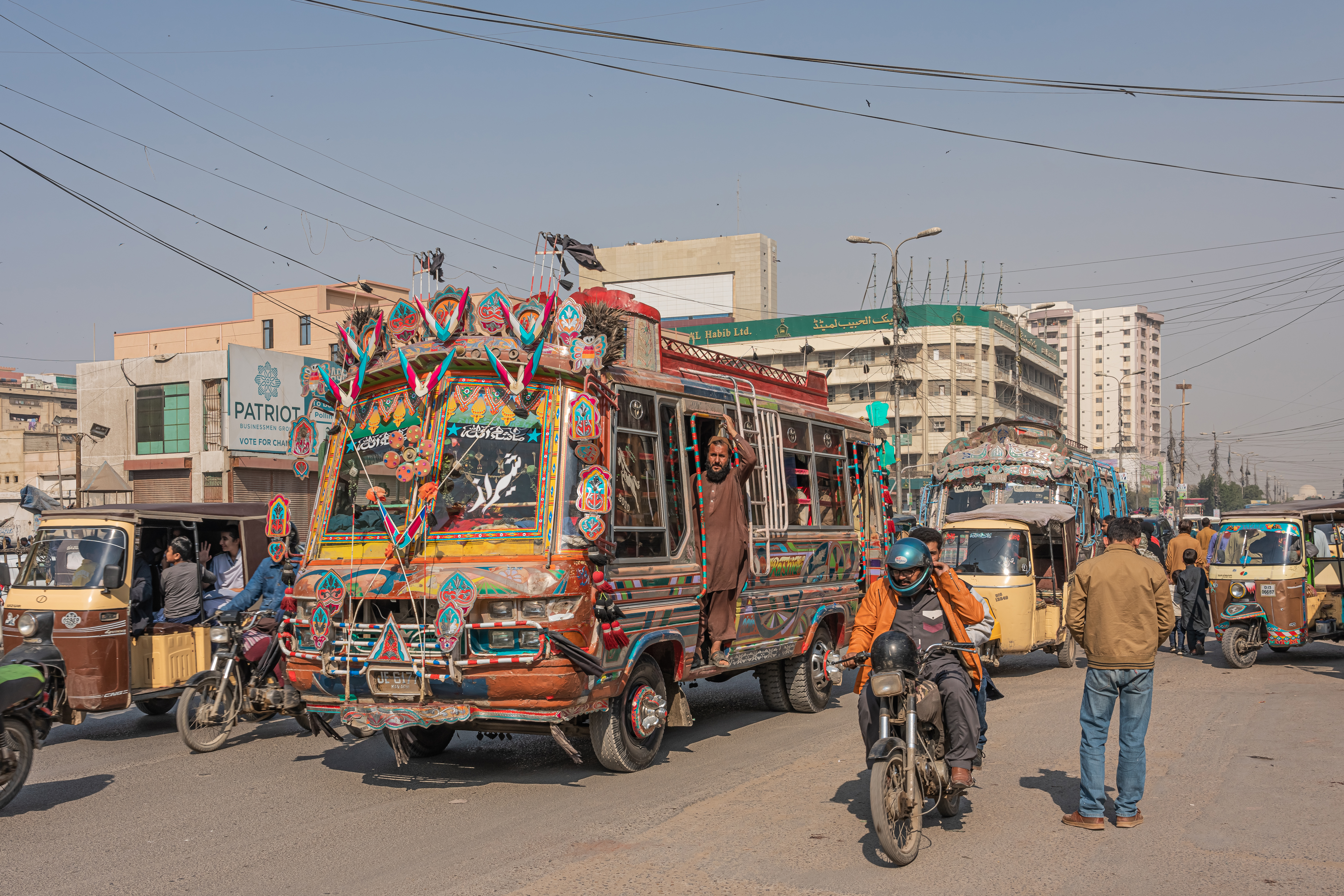 Public bus at M. A. Jinnah Road in Karachi, Pakistan